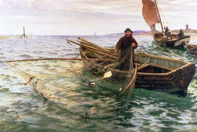 The Fisherman